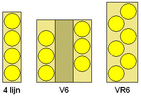 Schematic top view illustrating cylinder positions, highlighting the differences in engine width and length between an inline four engine, a conventional V6 engine, and the Volkswagen Group VR6 engine